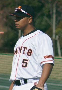 Giants_lopes